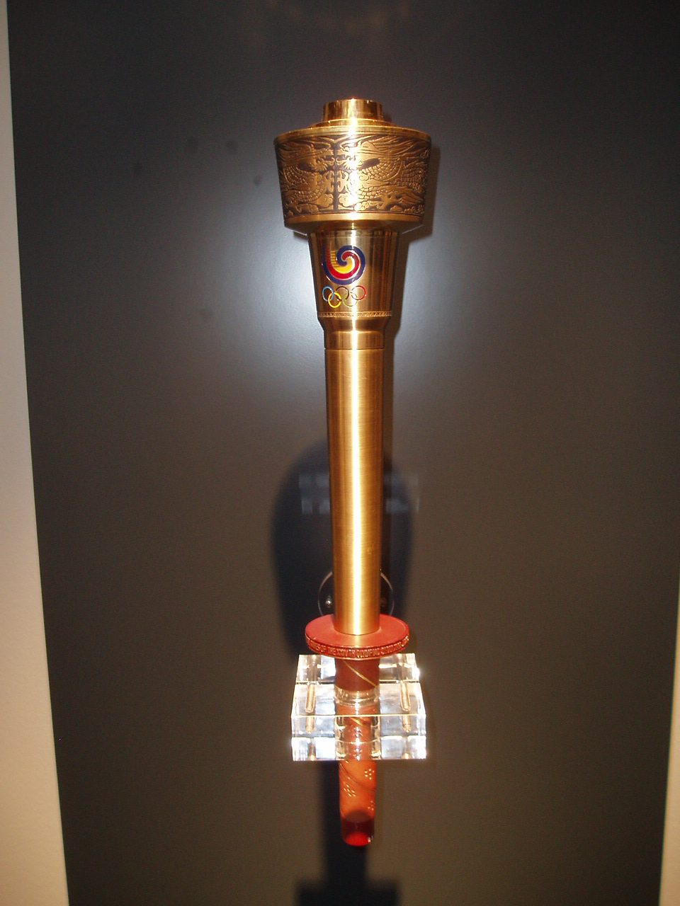 Torch of Seoul 1988 Olympic Games